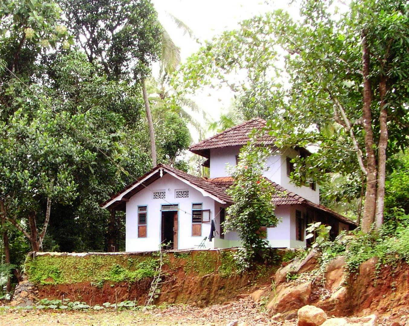 Malappuram, Kerala, India.